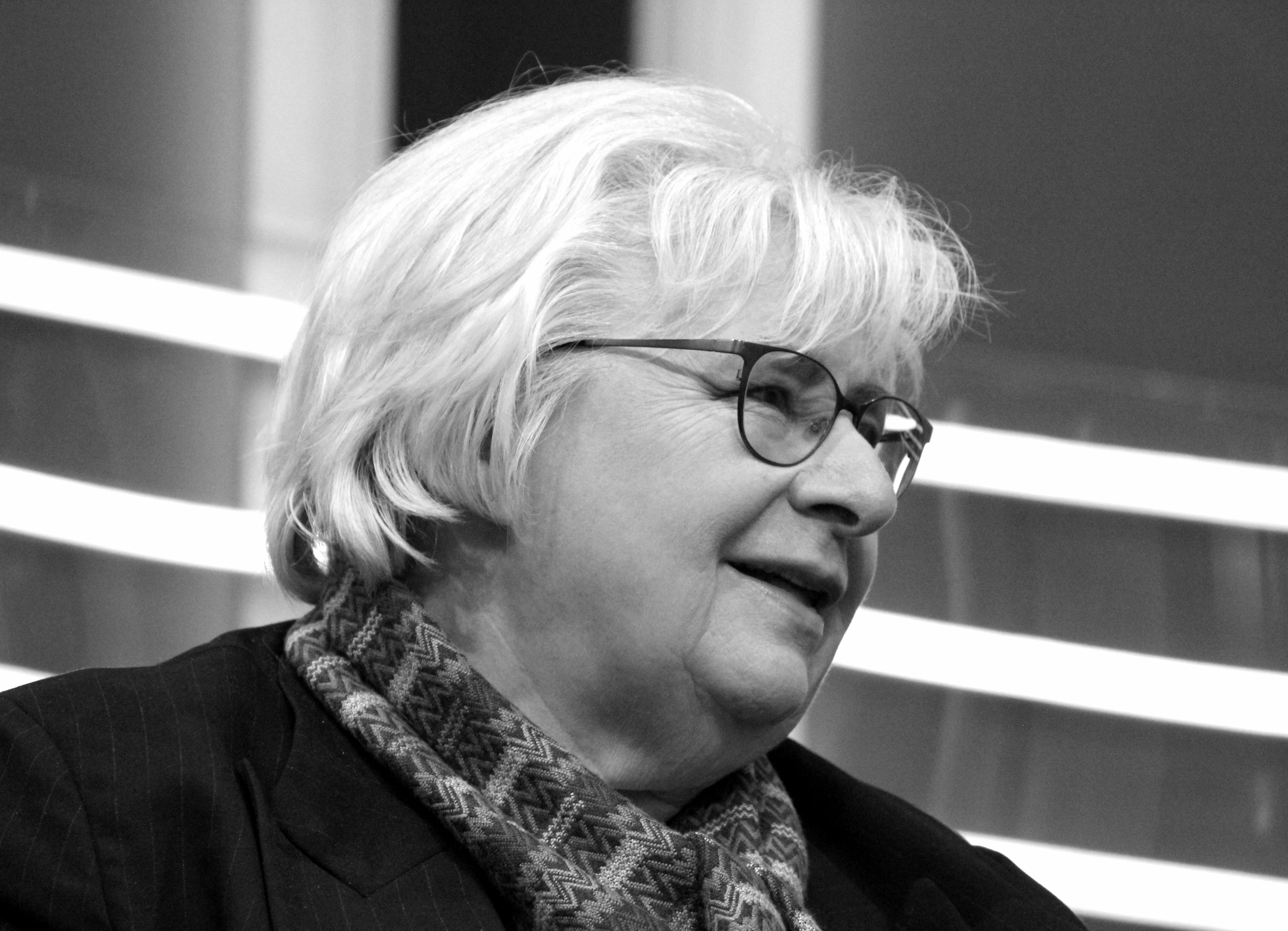 Sigrid Löffler Leipzig Book Fair 2018